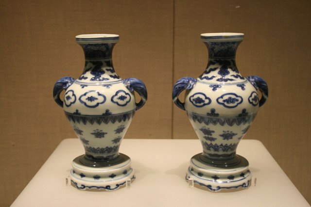 Chinese porcelain double-handled vases from the Ming Dynasty (1368-1644 AD).